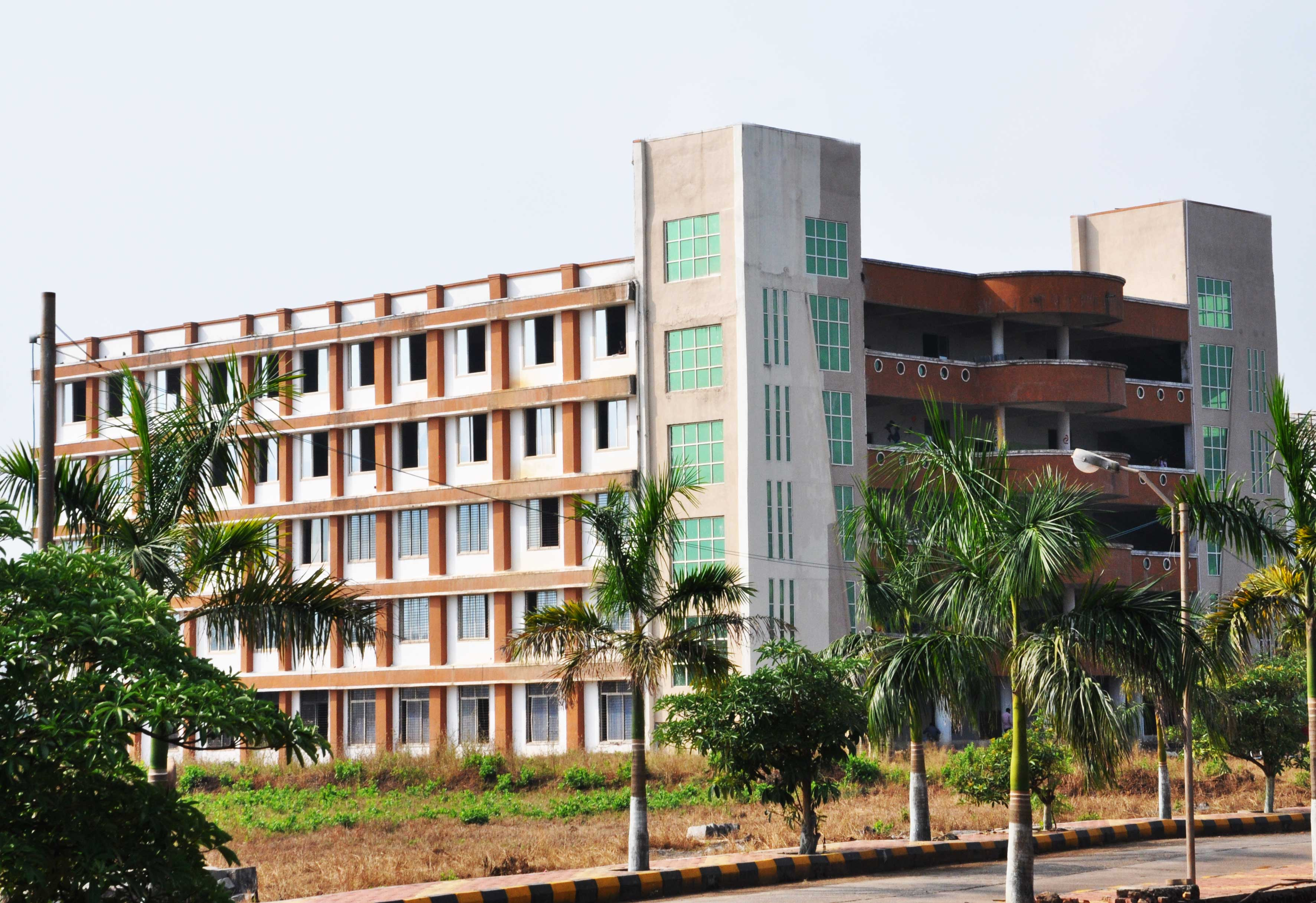 YTCEM Photo